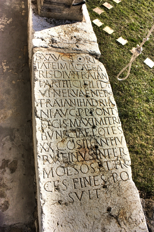 Roman border stone from the rule of Hadrian (117-133) at the base of the Patriarchal Monastery of the Holy Trinity near Veliko Tarnovo, Bulgaria. It had been a mark of the border between Moesia and Thracia at the village of Hotnica before being brought to the monastery. AE 1985, 730: Ex auctori/tate Imp(eratoris) Caesa/ris divi Traiani / Parthici fili(i) di/vi Nervae nepo(tis) / Traiani Hadria/ni Aug(usti) p(atris) p(atriae) ponti/ficis maximi tri/buniciae potes(tatis) / XX co(n)s(ulis) III Antiu(s) / Rufinus inter / Moesos et Thra/ces fines po/suit